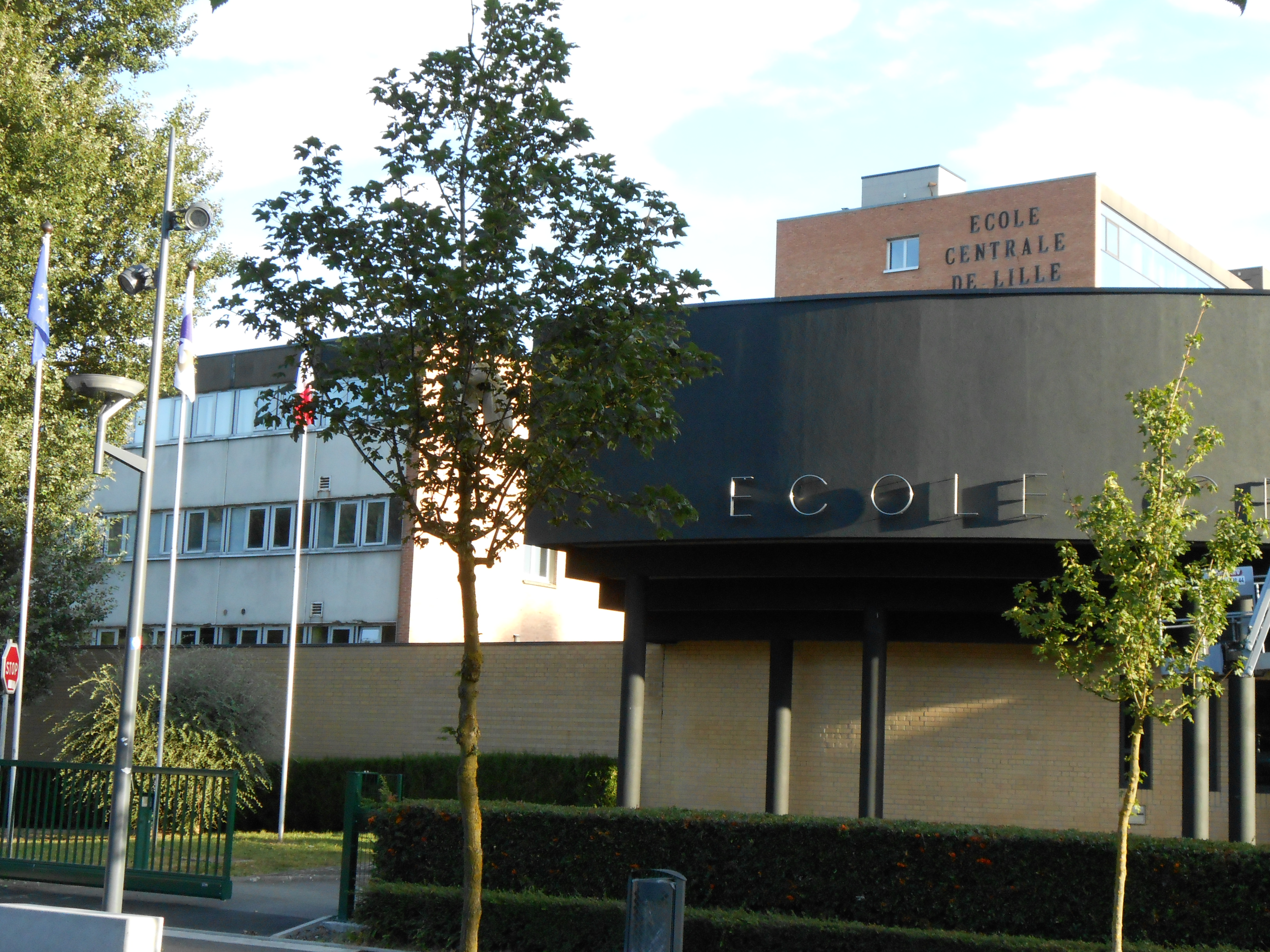 Centrale graduate school, Lille, France